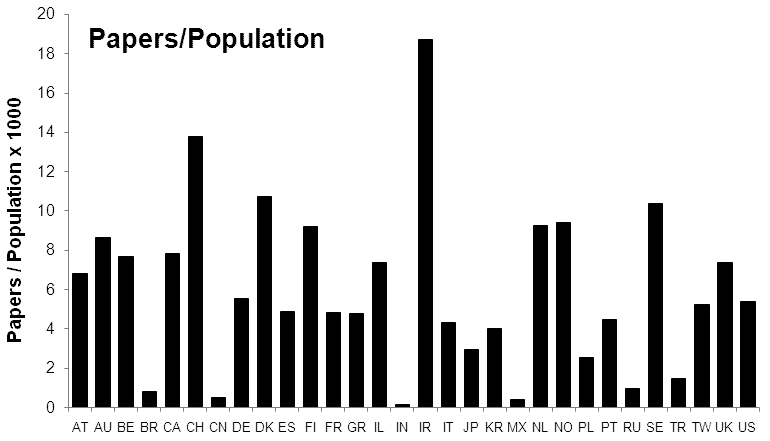 Number of published papers for each 1000 residents for different countries. Sources: Number of papers: Larivière et al. "Bibliometrics: Global gender disparities in science" Population: Population data in articles of Wikipedia for 2012.